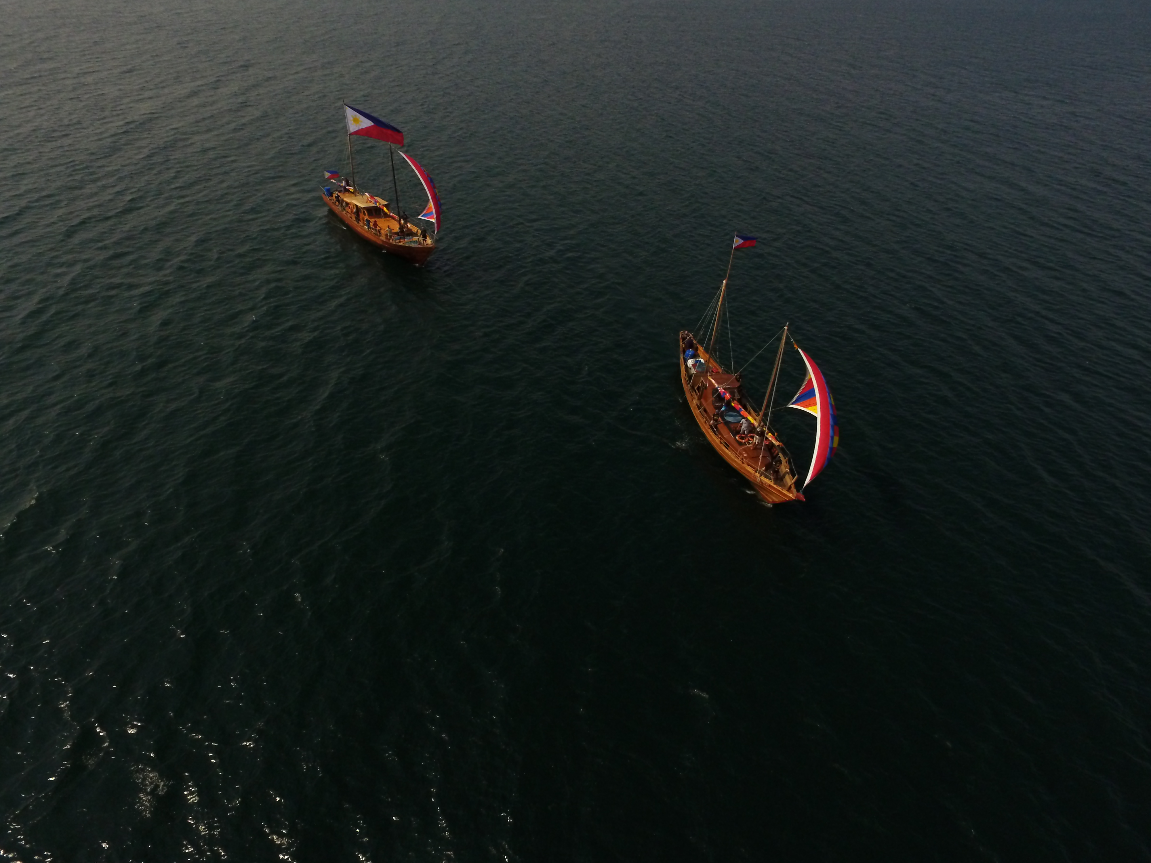 Balangay boats "Sultan sin Sula" and "Lahi ng Maharlika" sailing near Corregidor Island